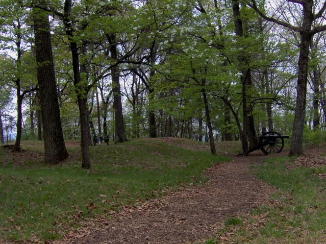 The Fort Dickerson site in South Knoxville, in the southeastern United States. The fort was built in 1863-4 by Union troops under General Ambrose Burnside as part of efforts to fortify the city during the U.S. Civil War. The site is accessible just off Chapman Highway.